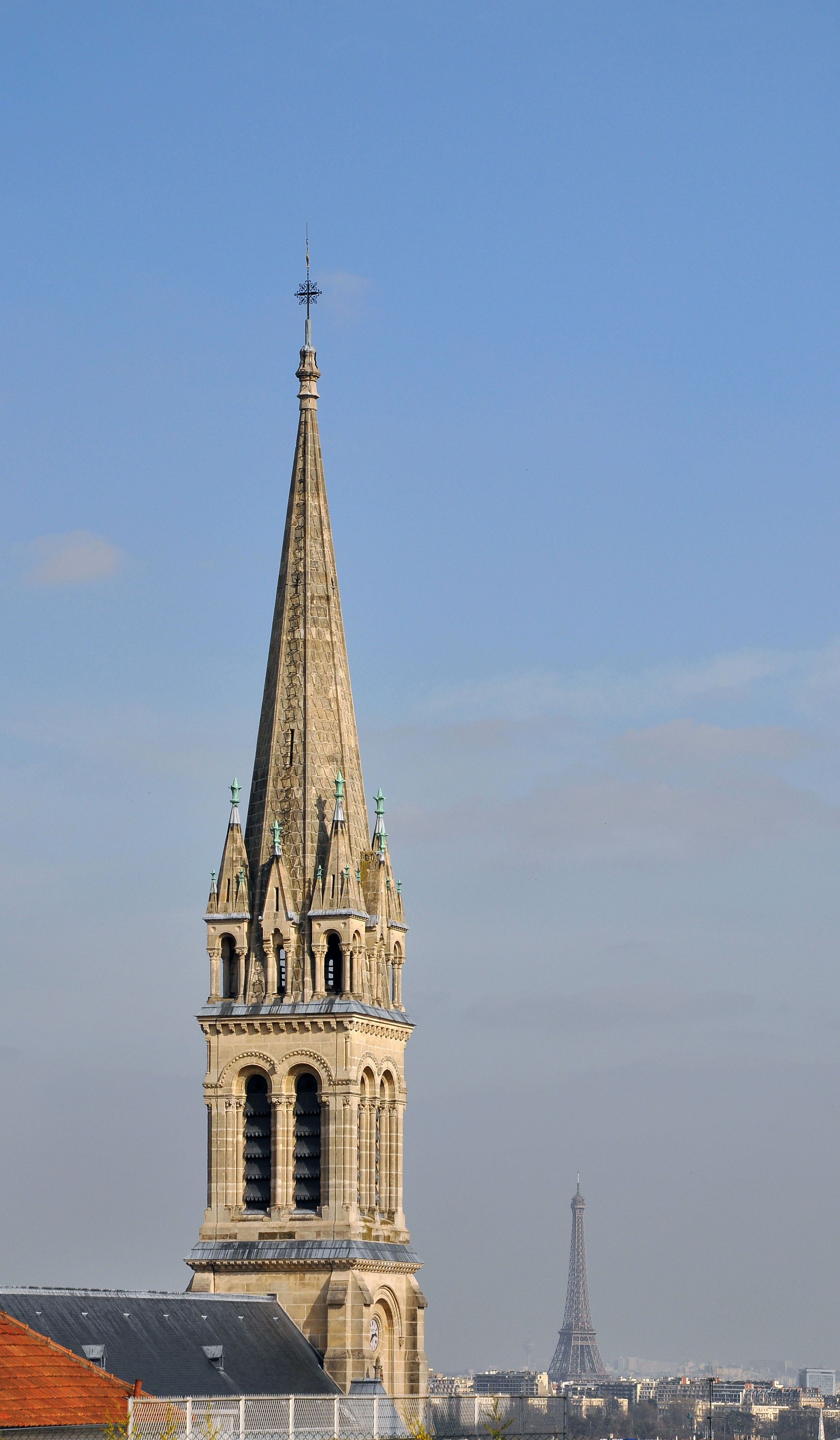 The belfry of the church Saint-Clodoald in Saint-Cloud, Hauts-de-Seine department, France.